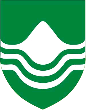 COA Gardabaejar